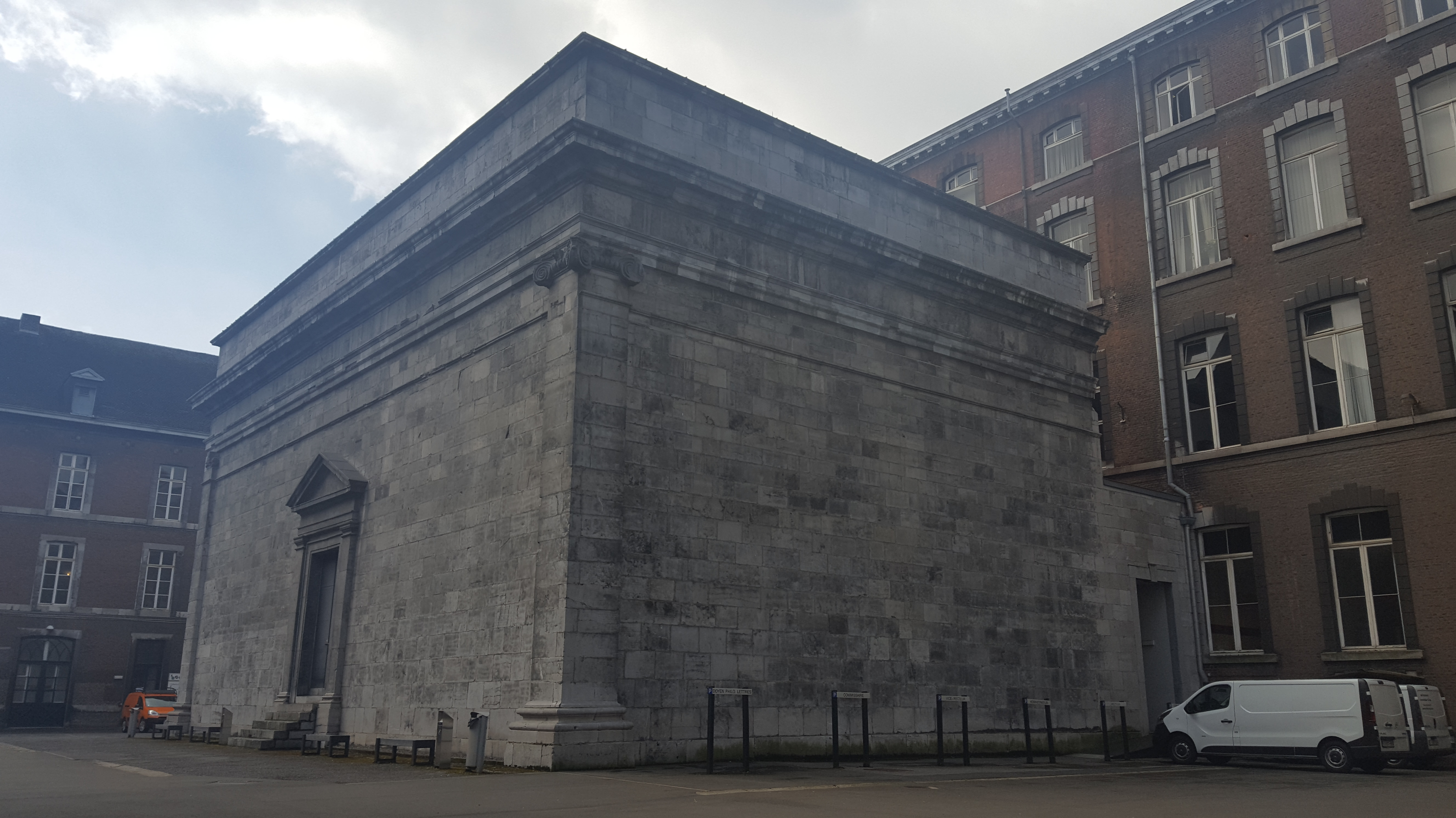 building of the university, during the photography session, in the Library of Université de Liège, Wiki Loves Art, Liège, Belgium